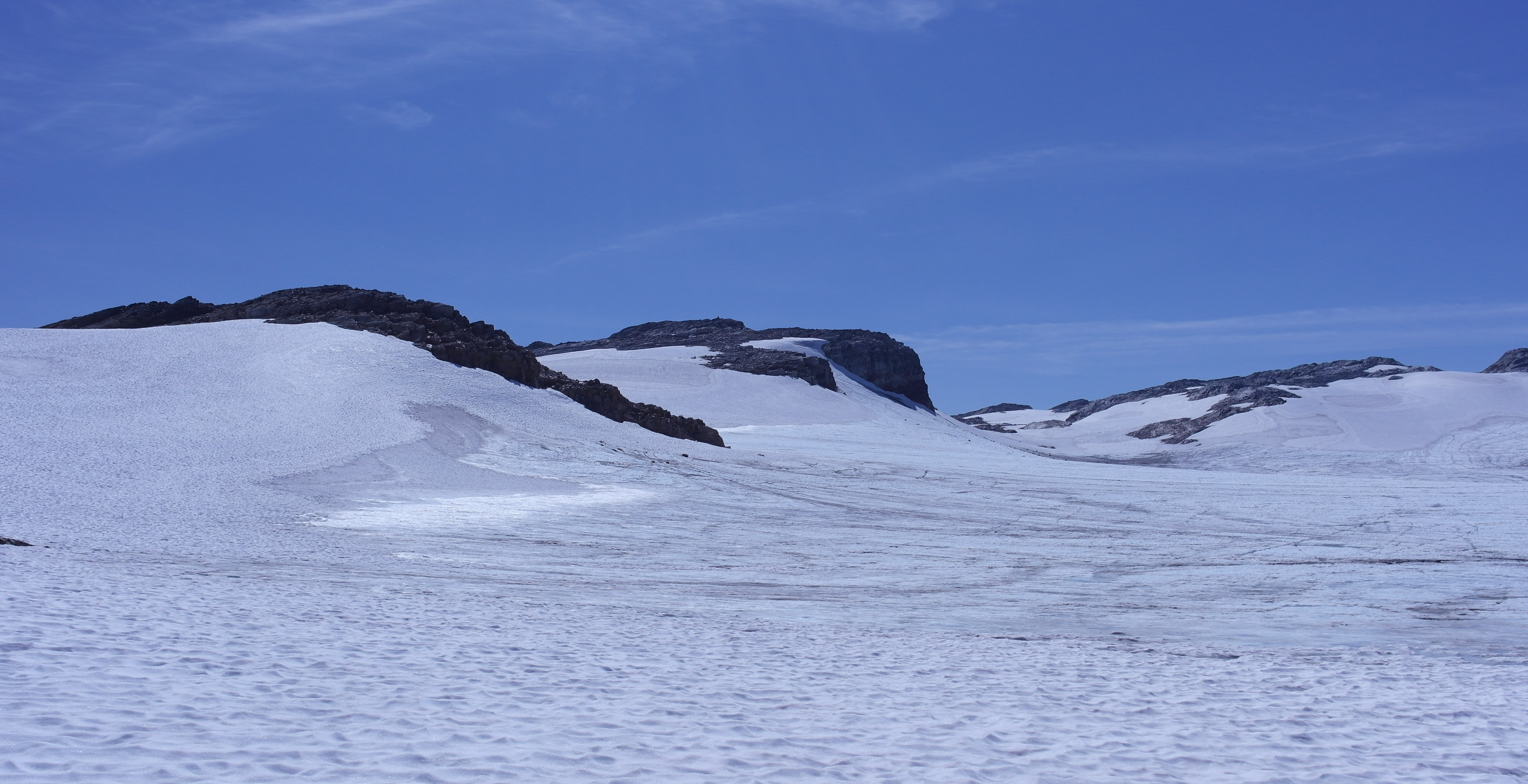 View of Solfonn, a small glacier located in the southwestern part of Hardangervidda nasjonalpark